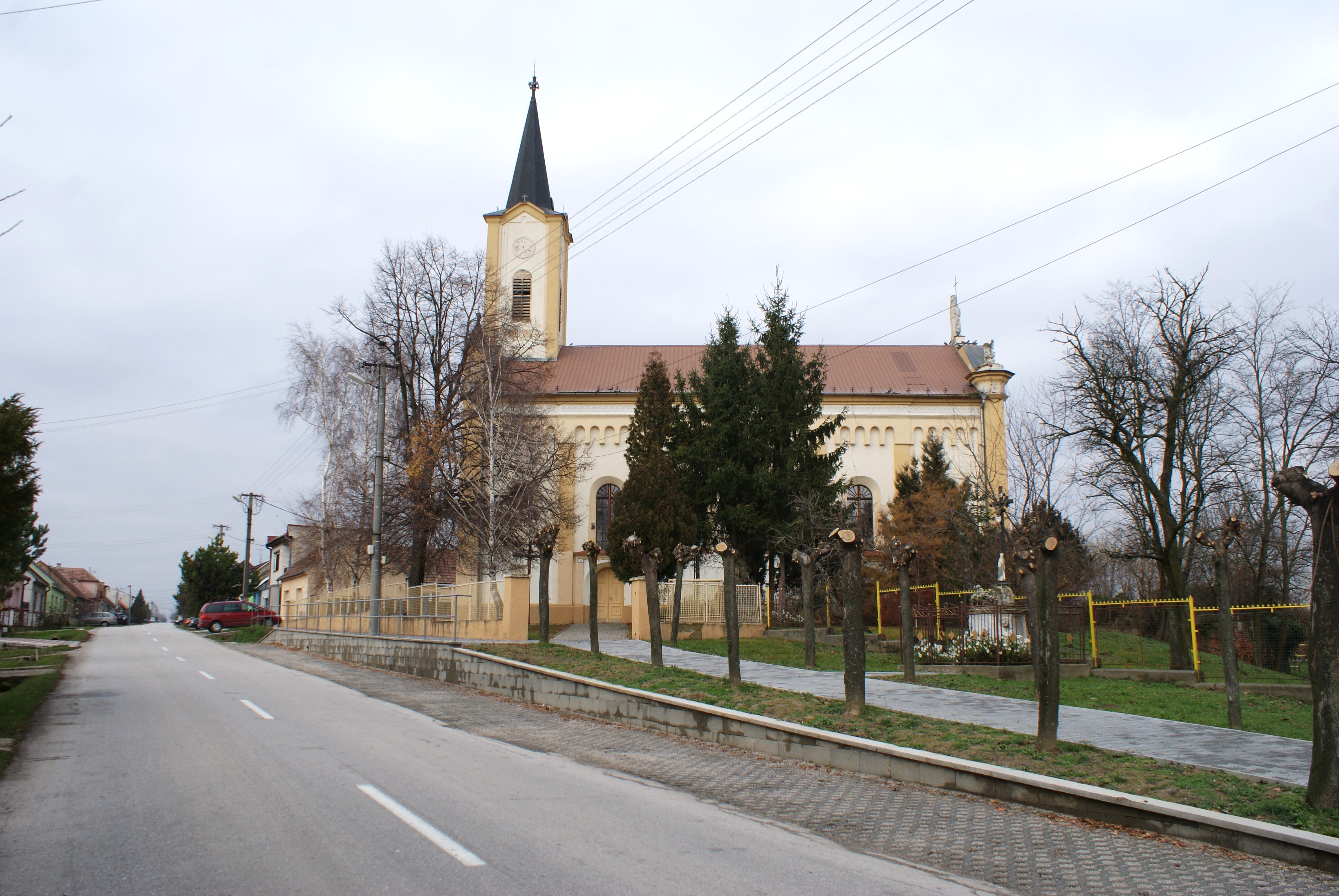 Jablonec, a village in Pezinok district, Slovakia, church.